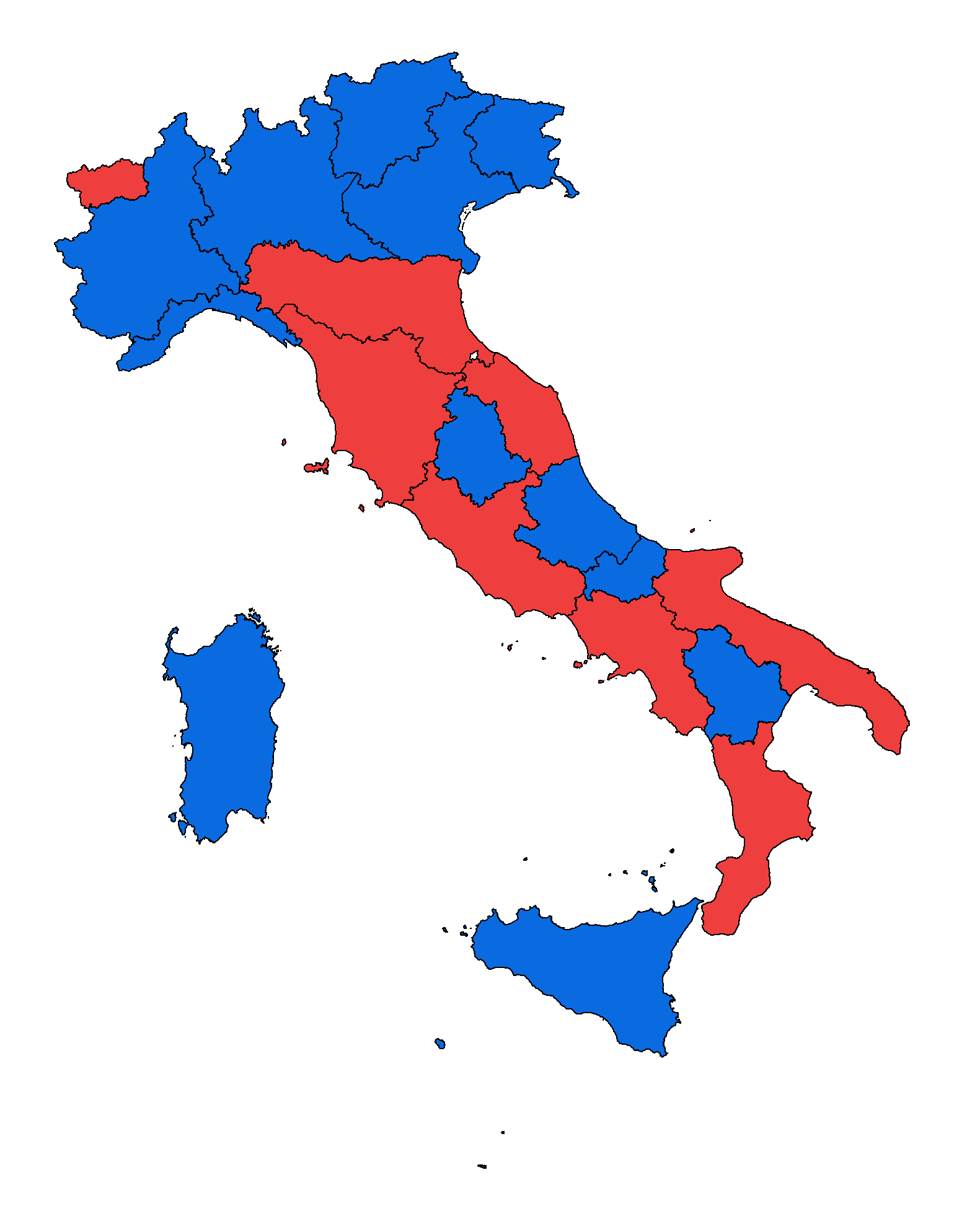 Map of Italian Regions by ruling coalition